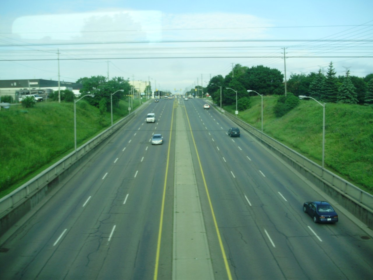 Looking west along Steeles Avenue West, east of its intersection with Keele Street, in Toronto, Canada. Photograph taken from the top level of a GO Transit Bombardier BiLevel railway car, travelling southbound on the Barrie line.